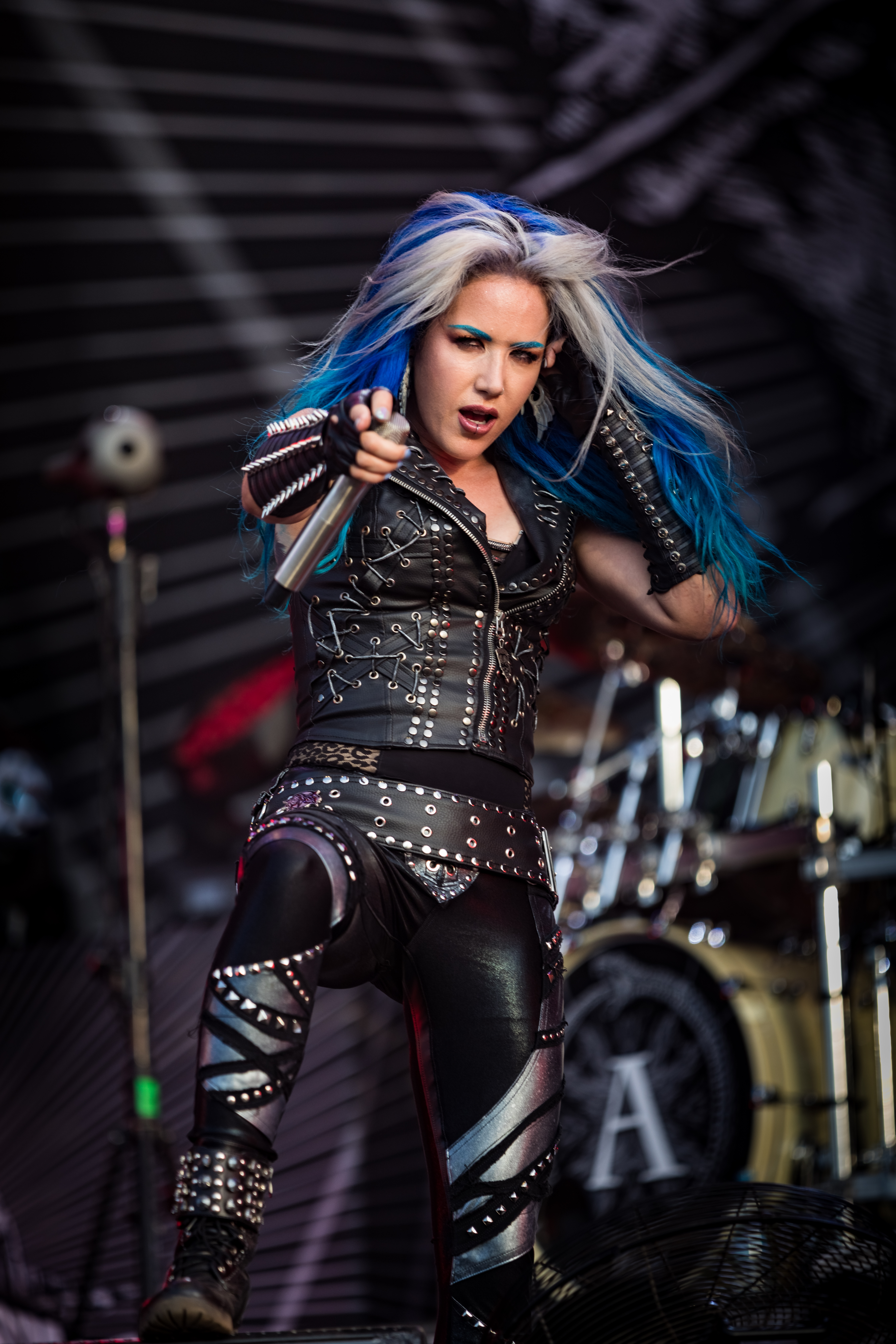 Arch Enemy - Wacken Open Air 2018